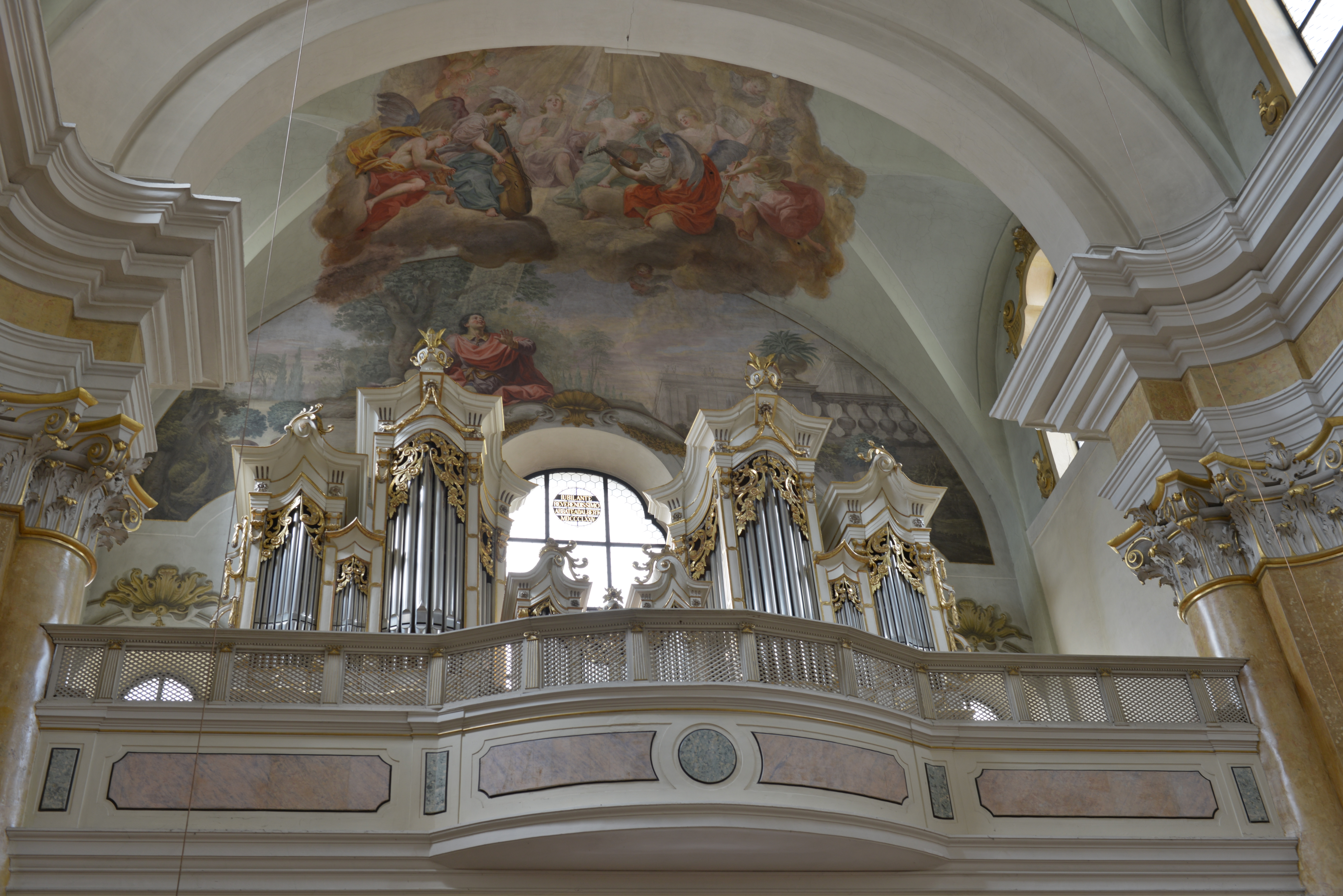 Church in Bozen-Gries